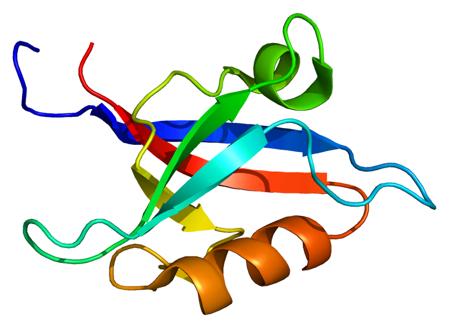 Structure of the GRIP1 protein. Based on PyMOL rendering of PDB 1m5z.